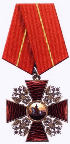 Order of Alexander Nevsky (Russia)